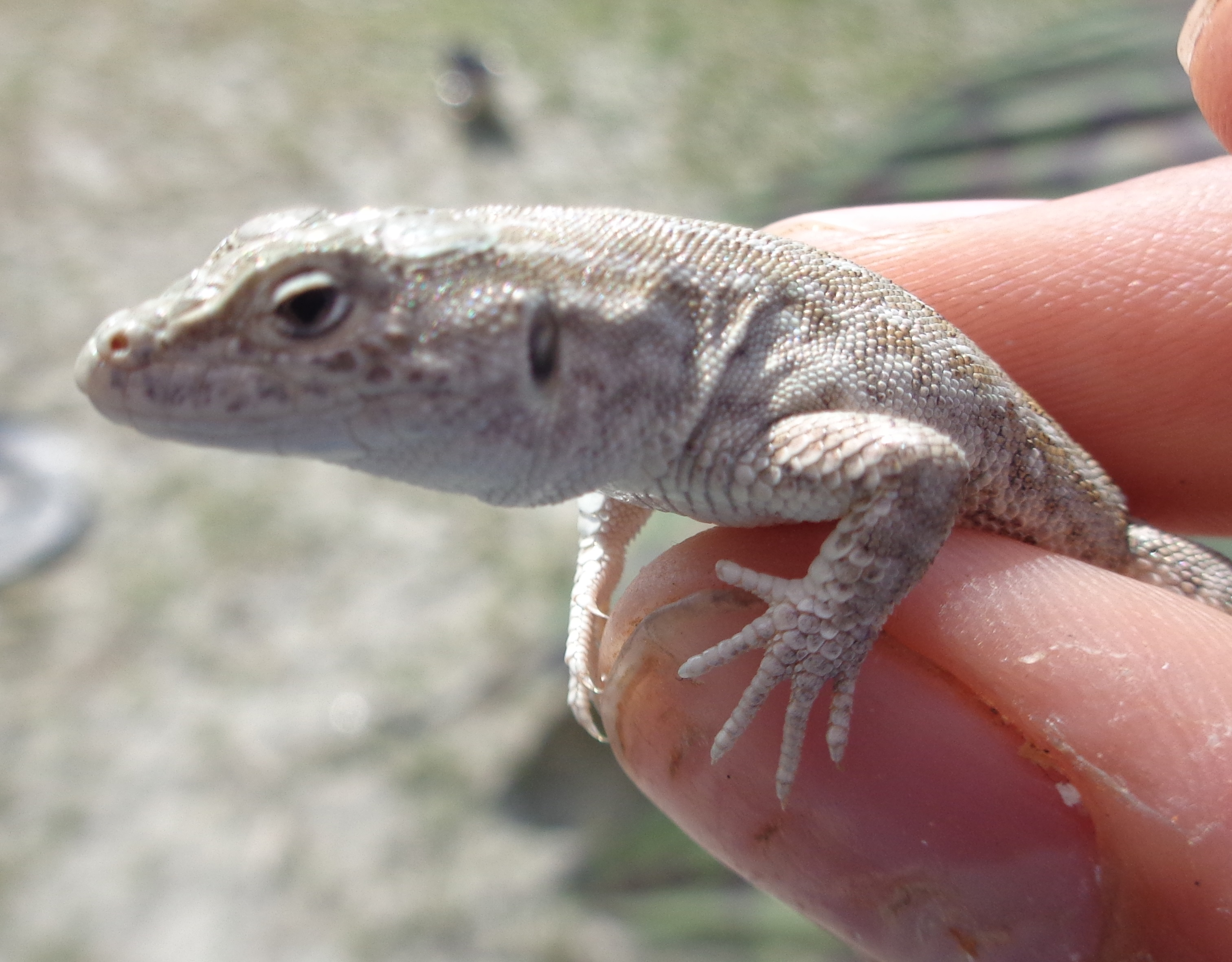 eremias arguta